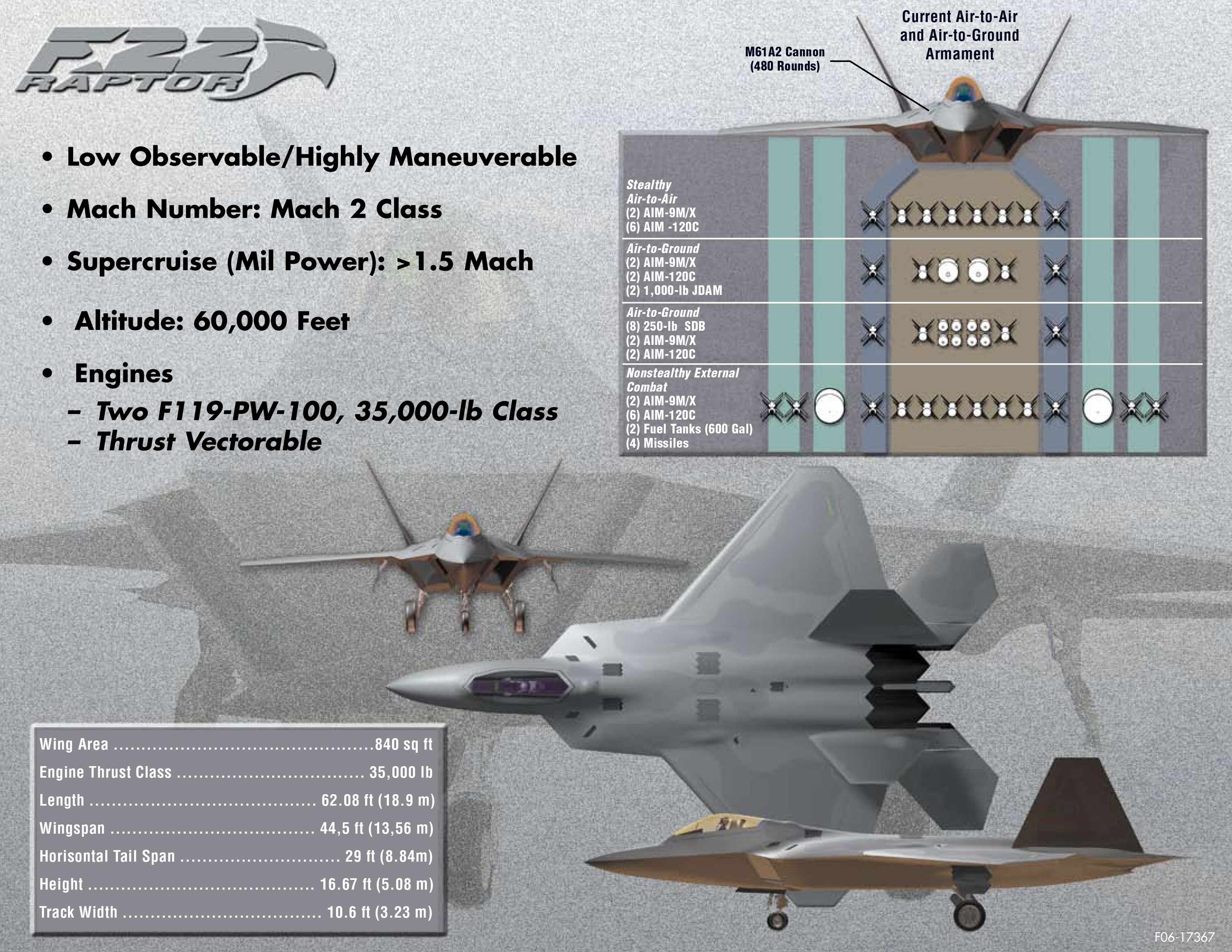 F-22 Raptor info. Published by the USAF, public domain.